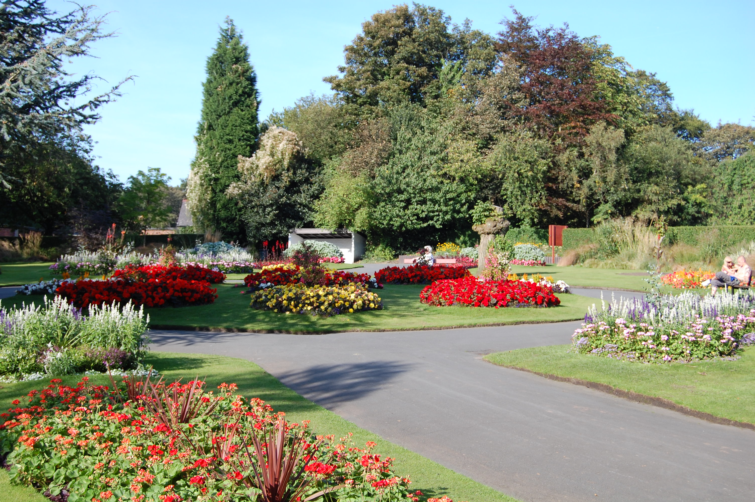 Stamford Park opened in 1873, following a 17 year campaign by local cotton workers; the land was bought from a local mill-owner for £15,000 (£1.05 million as of 2009) and further land was donated by George Grey, 7th Earl of Stamford. A crowd of between 60,000 and 80,000 turned out to see the Earl of Stamford formally open the new facility on 12 July 1873.